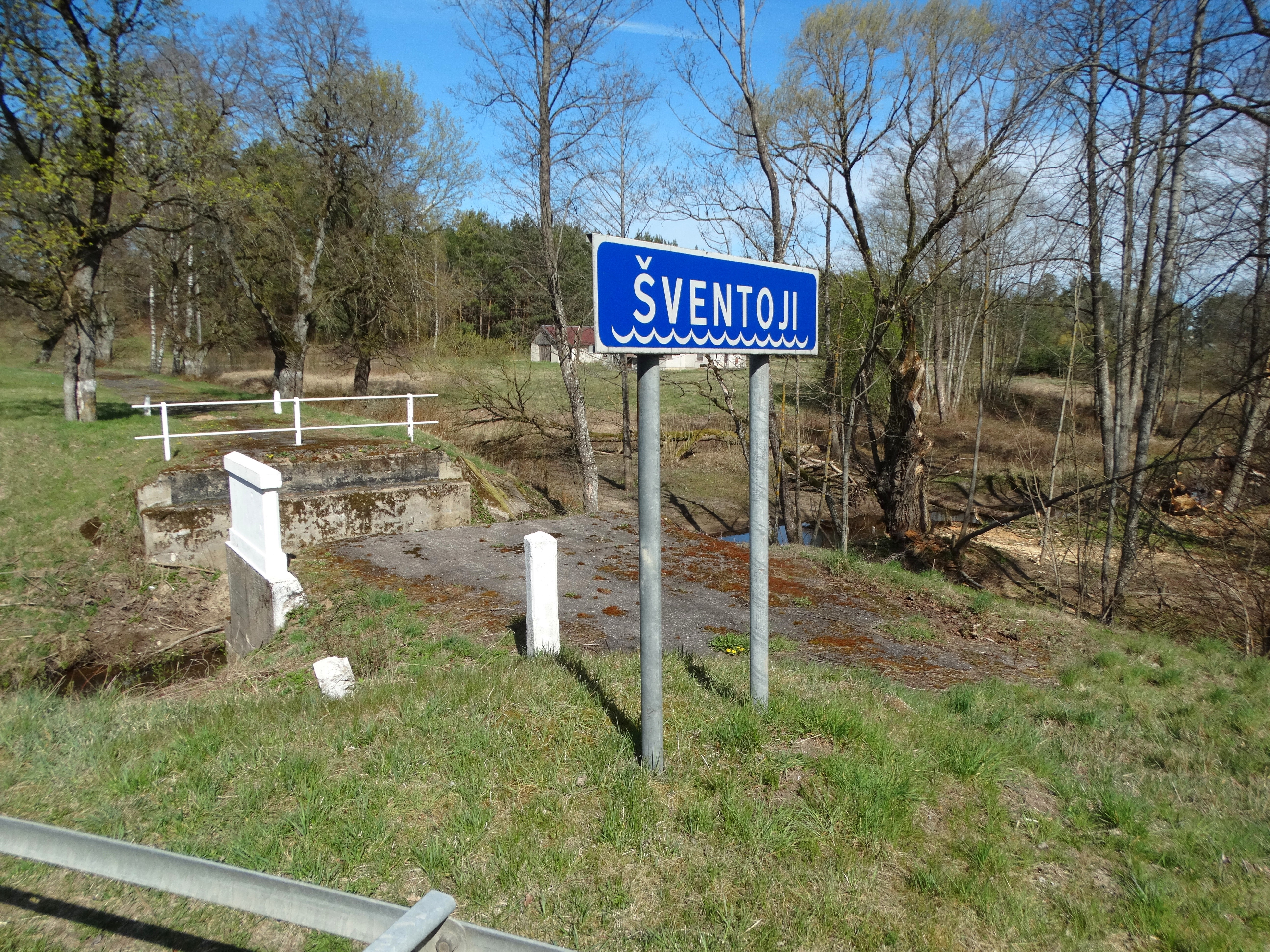 Šventoji River, Pašventys, Jurbarkas District, Lithuania